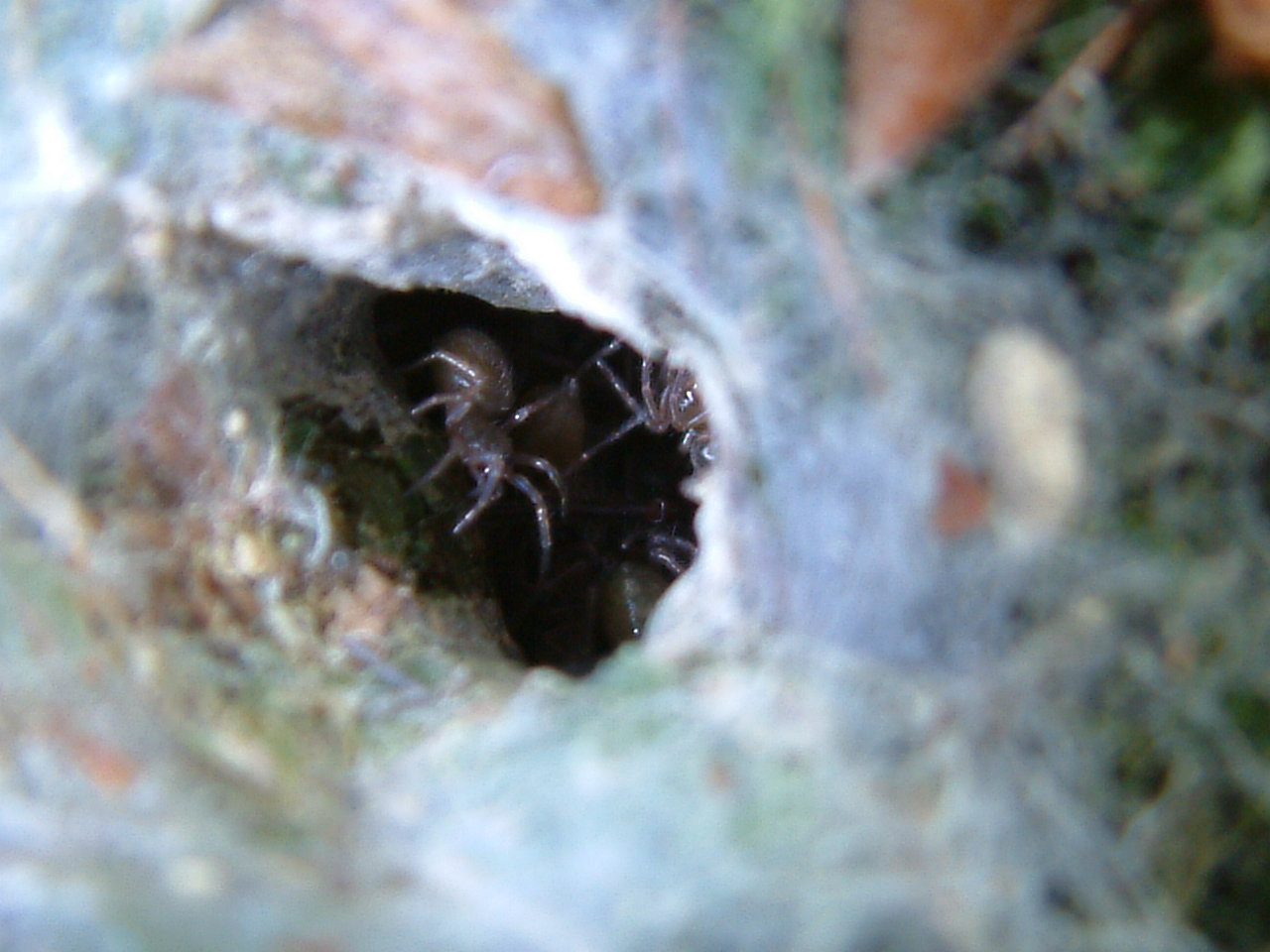 Waldwinkelspinne, Malthonica silvestris